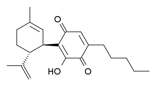 The molecular structure of HU-331